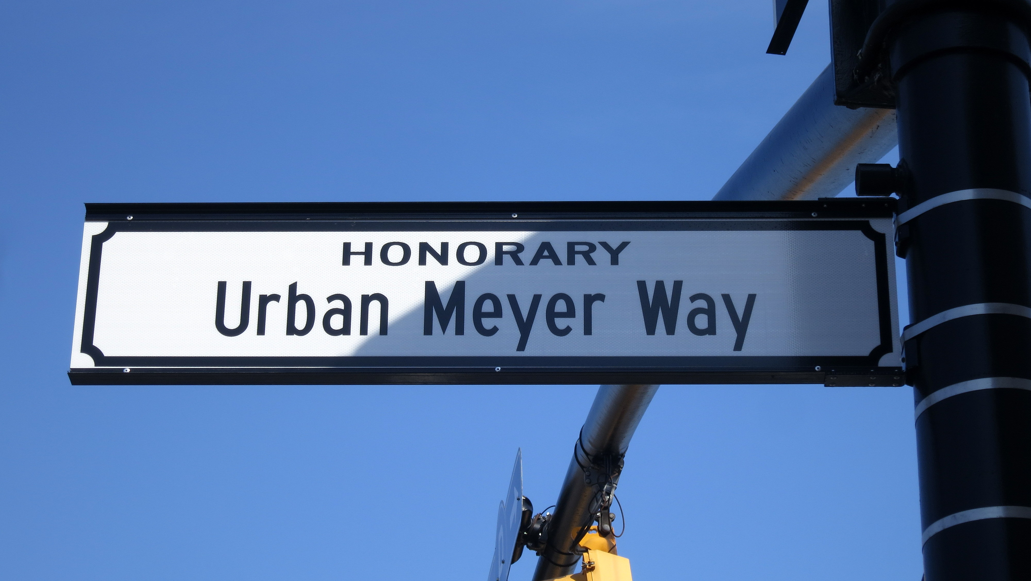 W. Bridge St. (Dublin, Ohio) - renamed Urban Meyer Way in honor of Dublin resident, Urban Meyer, coaching the Ohio State Buckeyes to the 2014 College Football Playoff championship